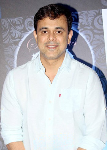 Sumeet Raghavan at Sachin Pilgaonkar’s 60th birthday celebrations.